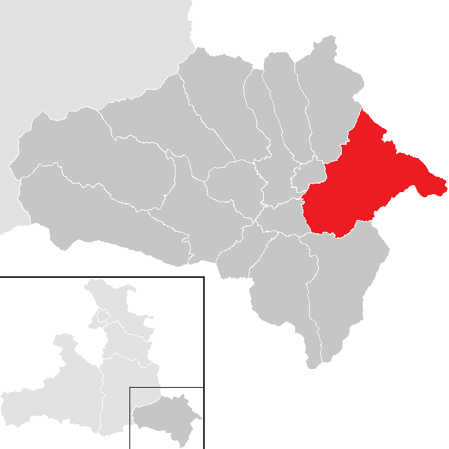 District Tamsweg